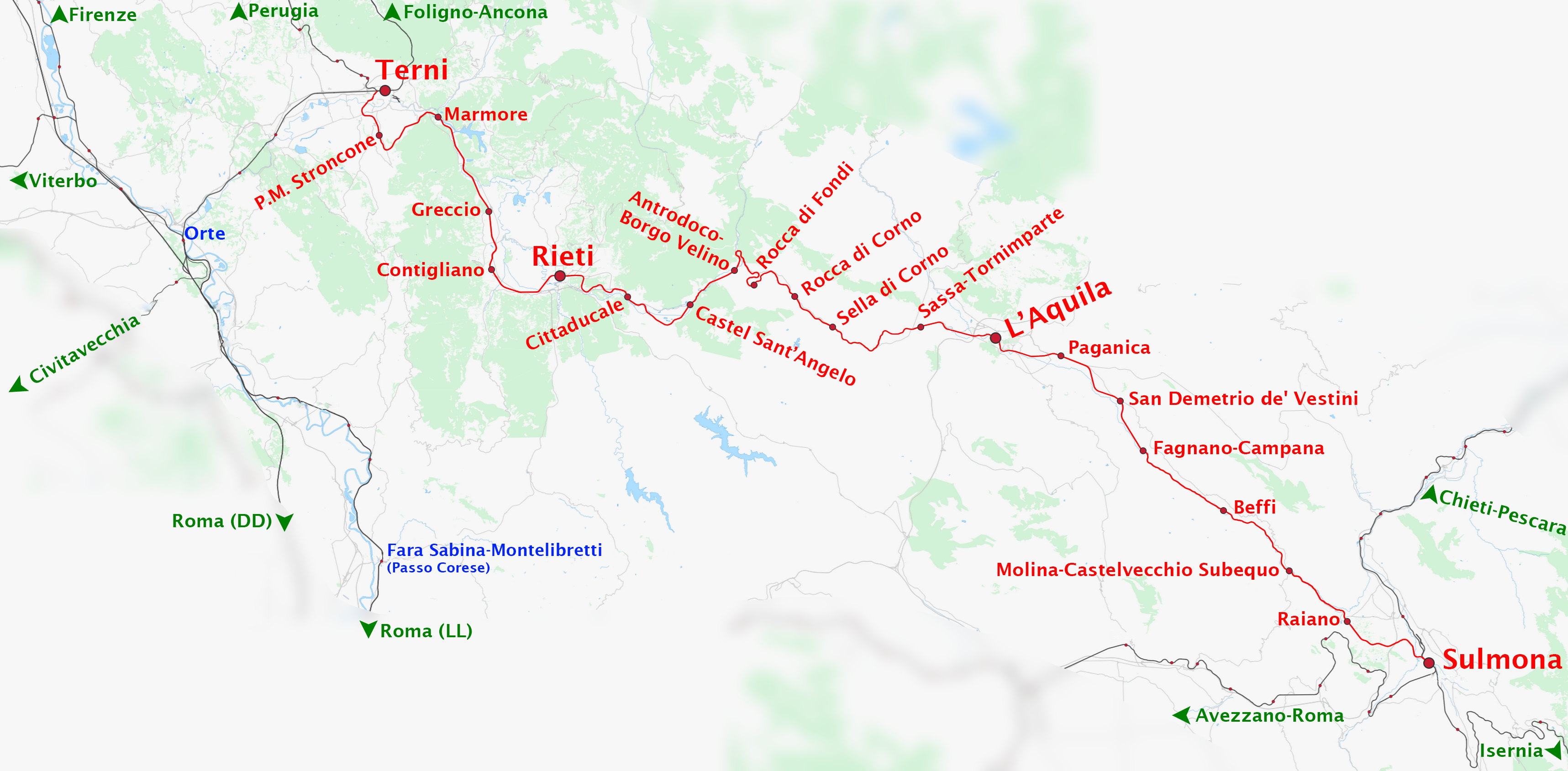 Route of the Terni-Rieti-L'Aquila-Sulmona railway (red line), in central Italy, with red dots marking all stations fitted with siding tracks. Stops without siding tracks are not shown. Other railways in the area are shown as black lines (their relevant stations are shown in blue and final destinations in green).